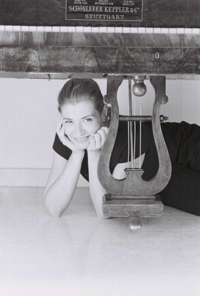 Milica Pap's photo